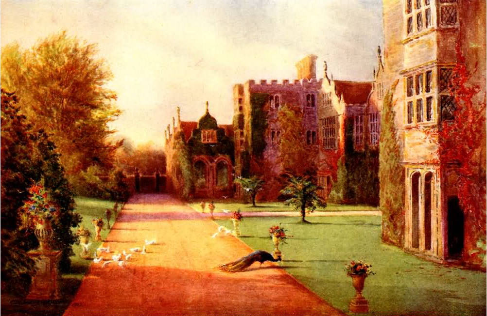 From "English Homes and Villages (Kent & Sussex)" by Lady Hope published by J. Salmon, 85 & 87 High Street, Sevenoaks in 1909